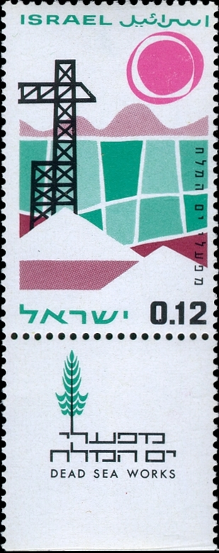 Dead Sea Works stamp